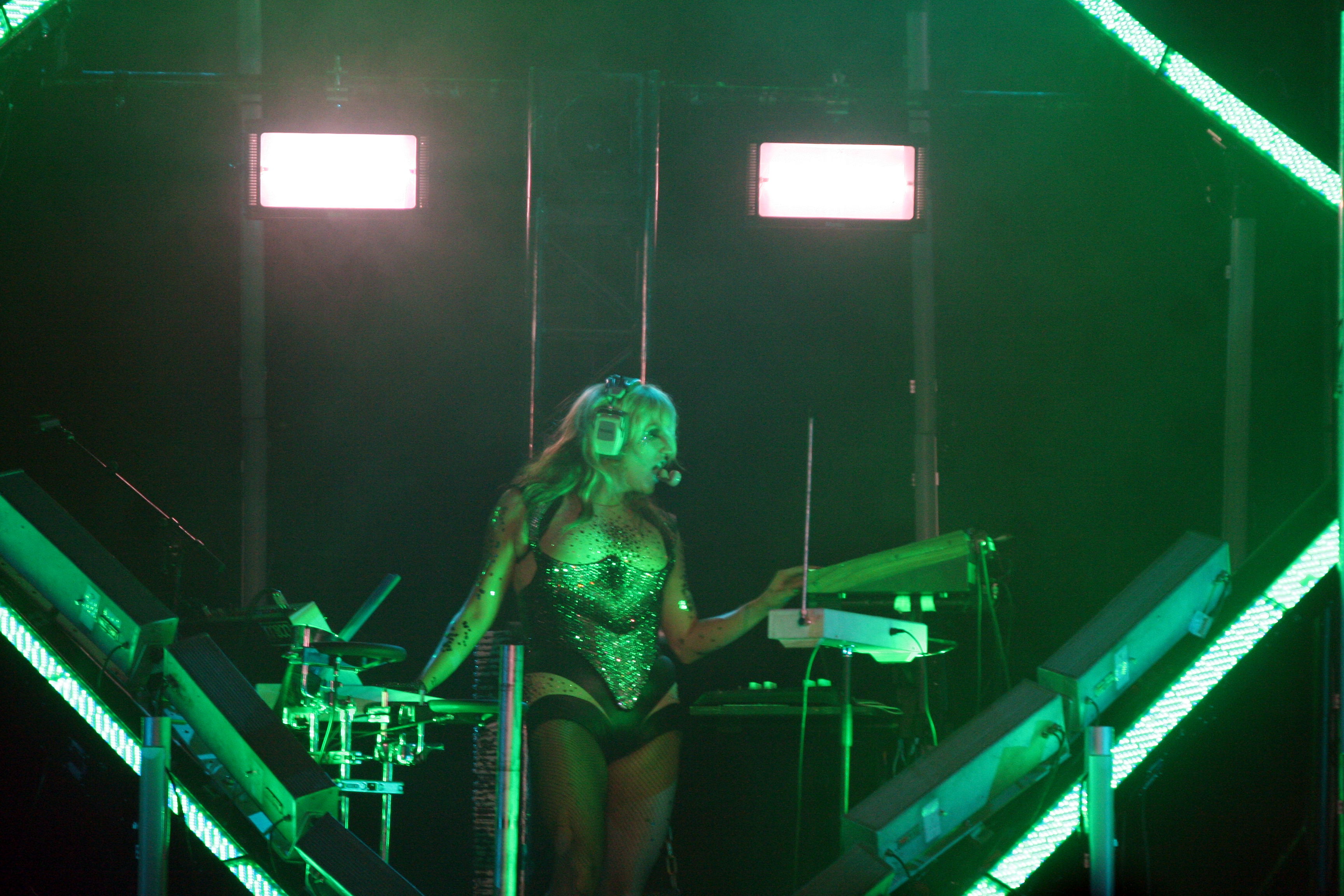 Kesha performing in Sydney, Australia.